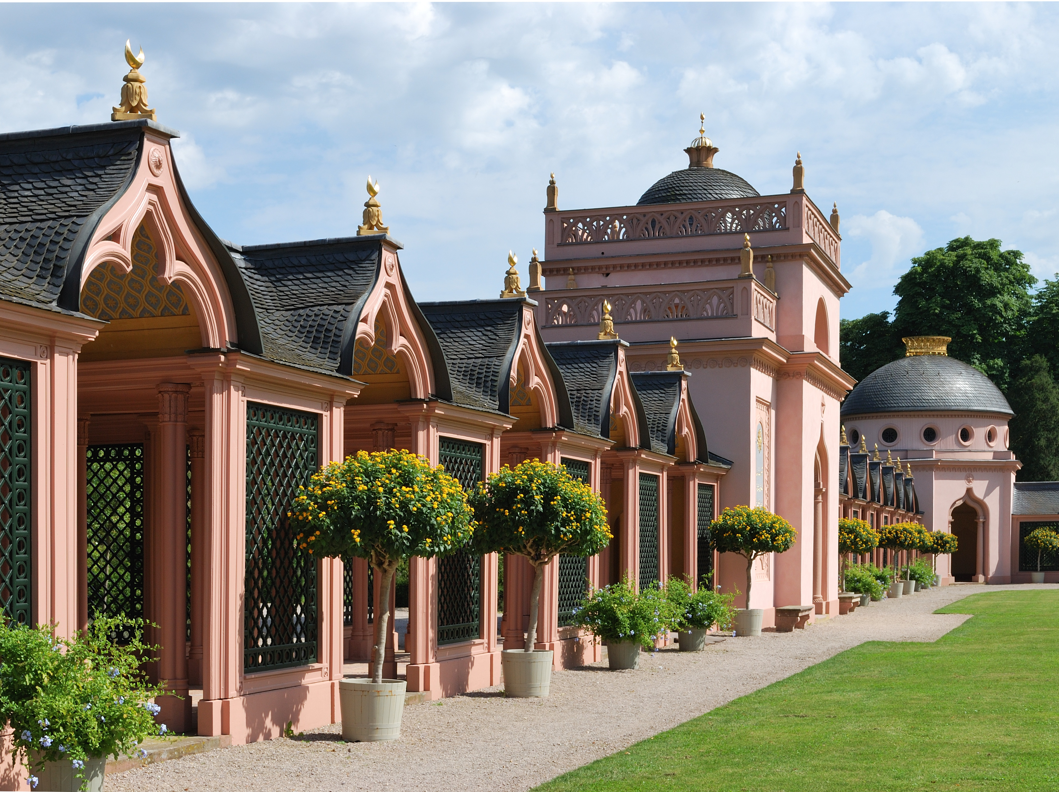 Gallery in the Turkish garden, Mosque in the Castle garden of Schwetzingen, Baden-Württemberg, Germany.